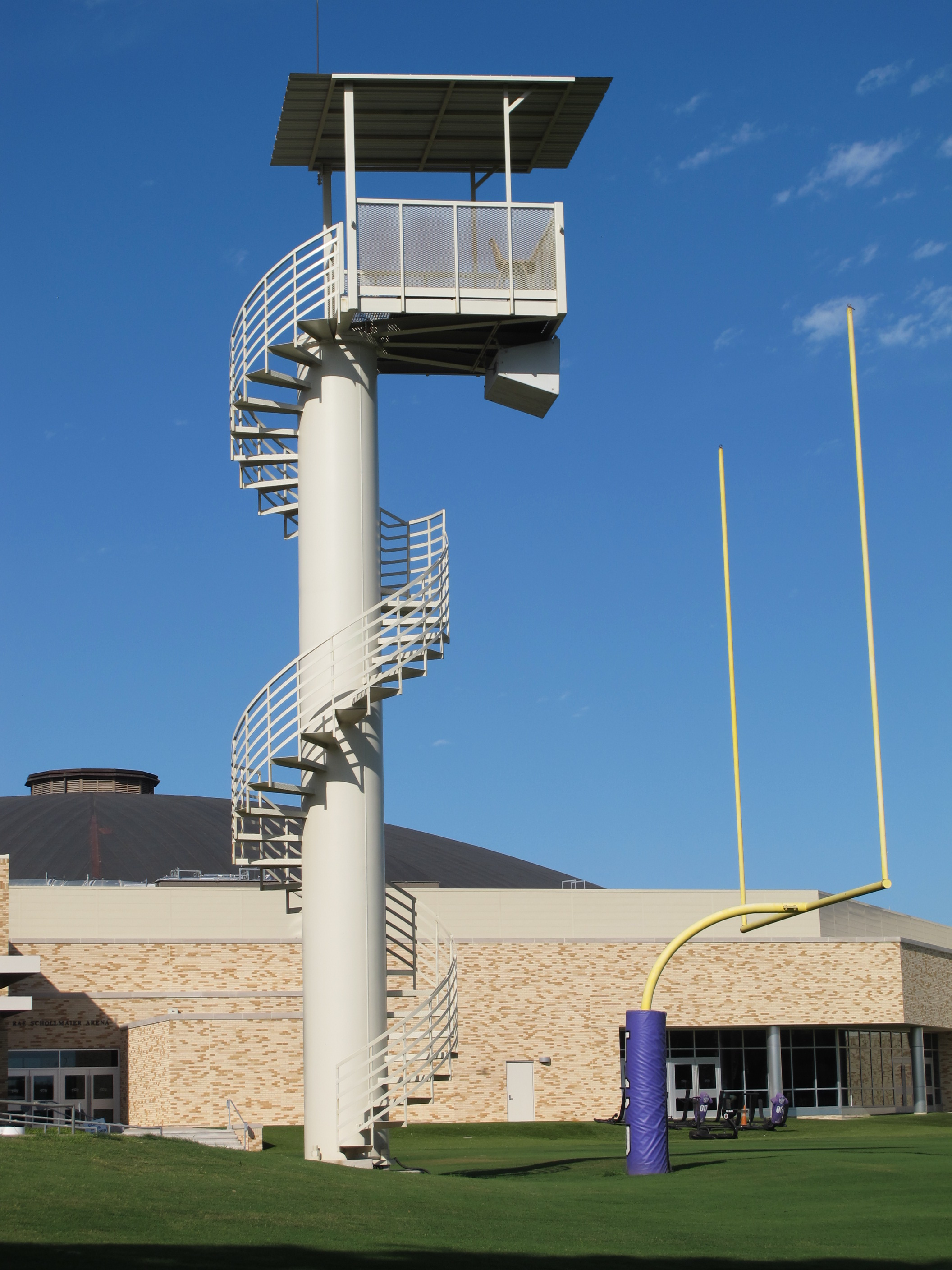 TCU's Sam Baugh Indoor Facility which is attached to Schollmaier Arena